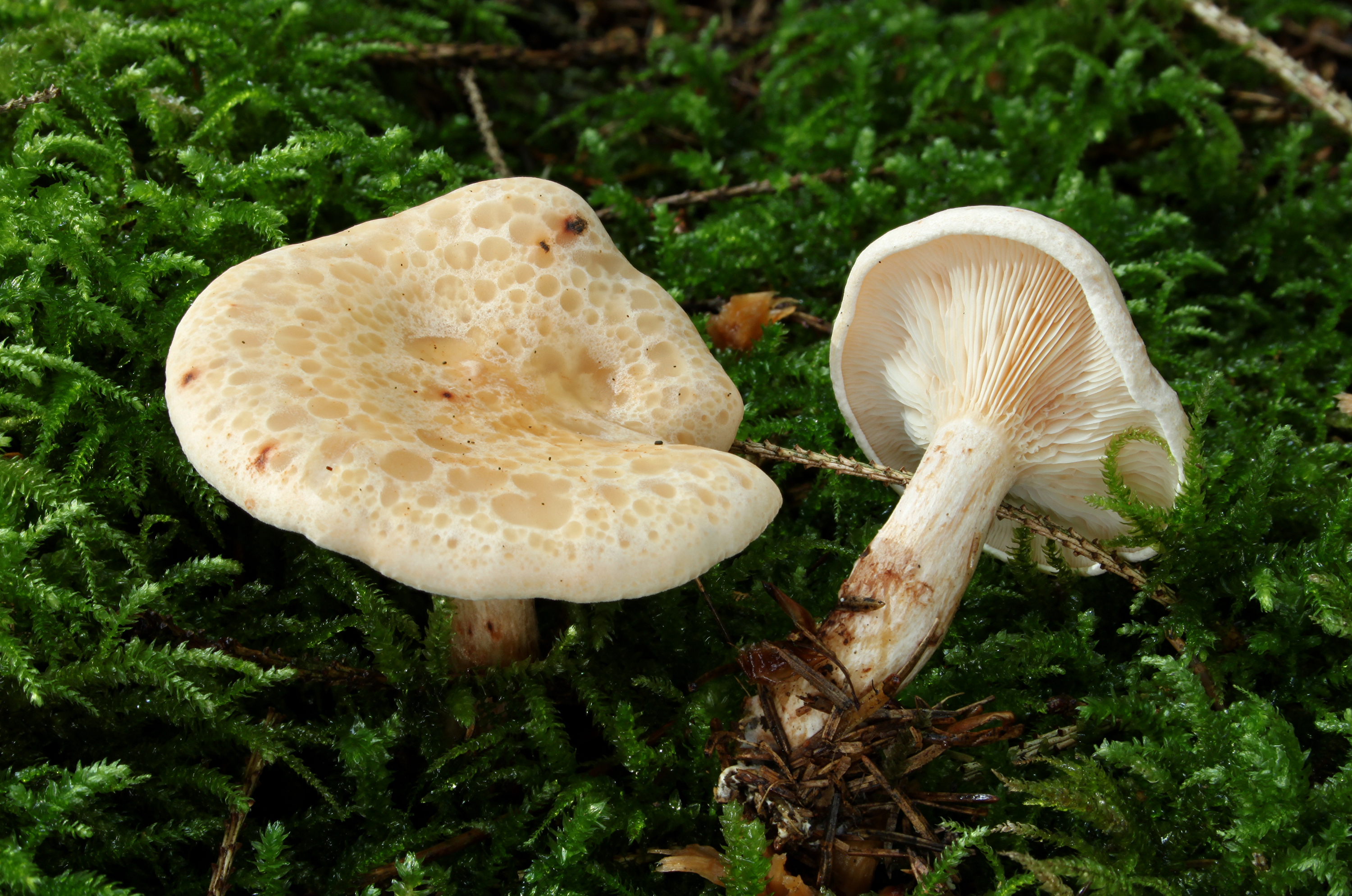 Lepista gilva, Family: Tricholomataceae, Location: Germany, Biberach an der Riss Some authors describe the species as a form of Lepista flaccida